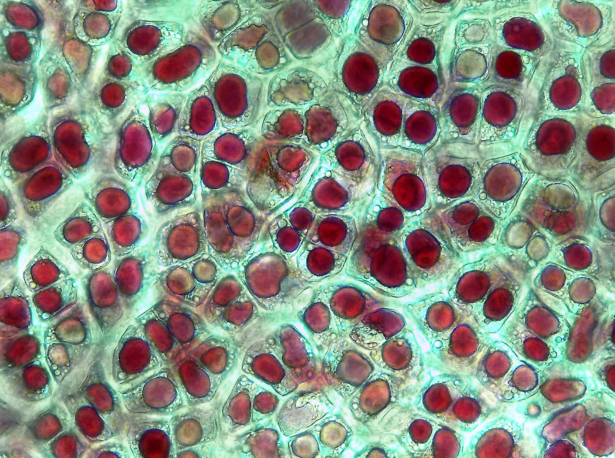 Cells (Chromoplasts) with red pigments on red apple peel. Magnification 40x.